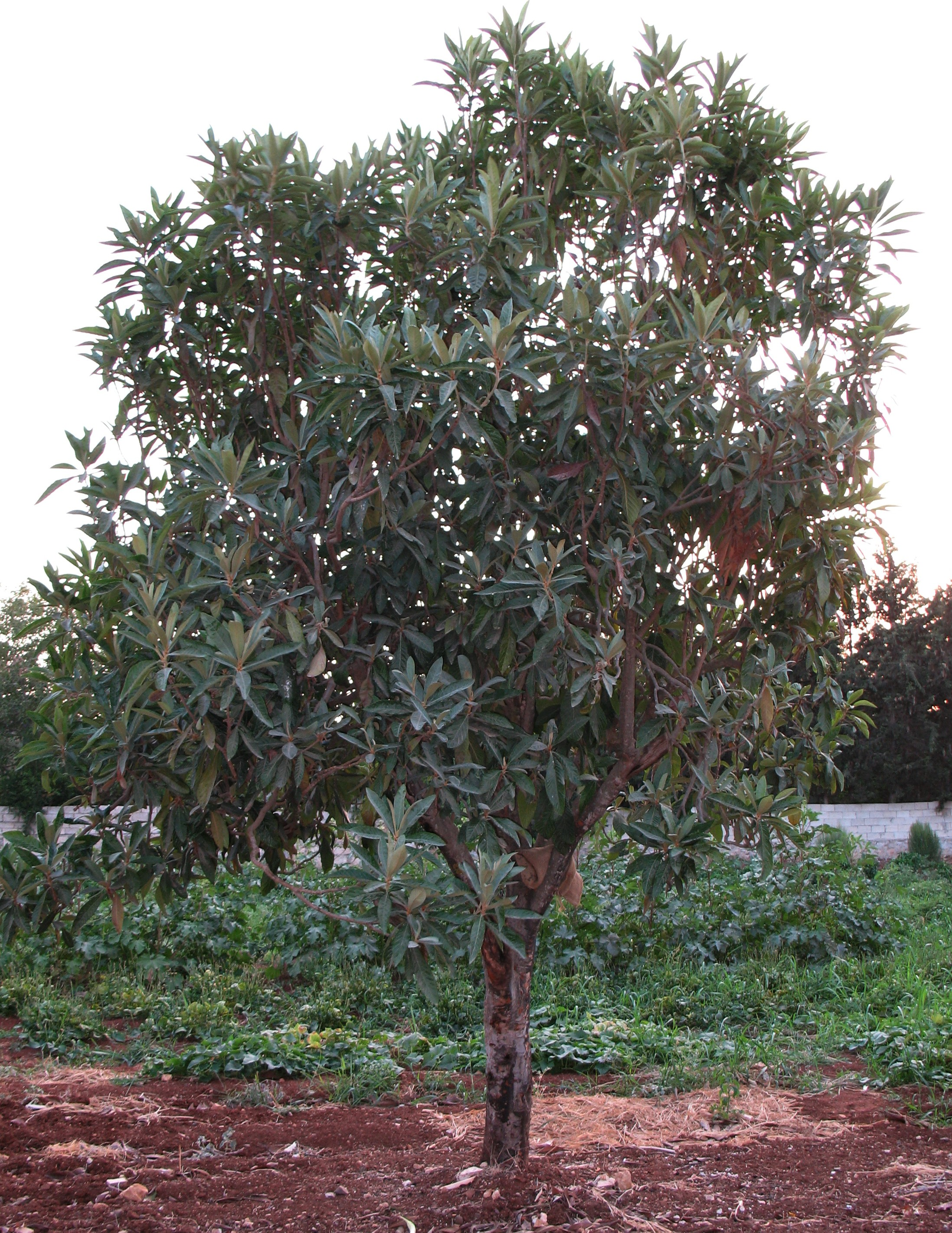 Loquat tree in Syria